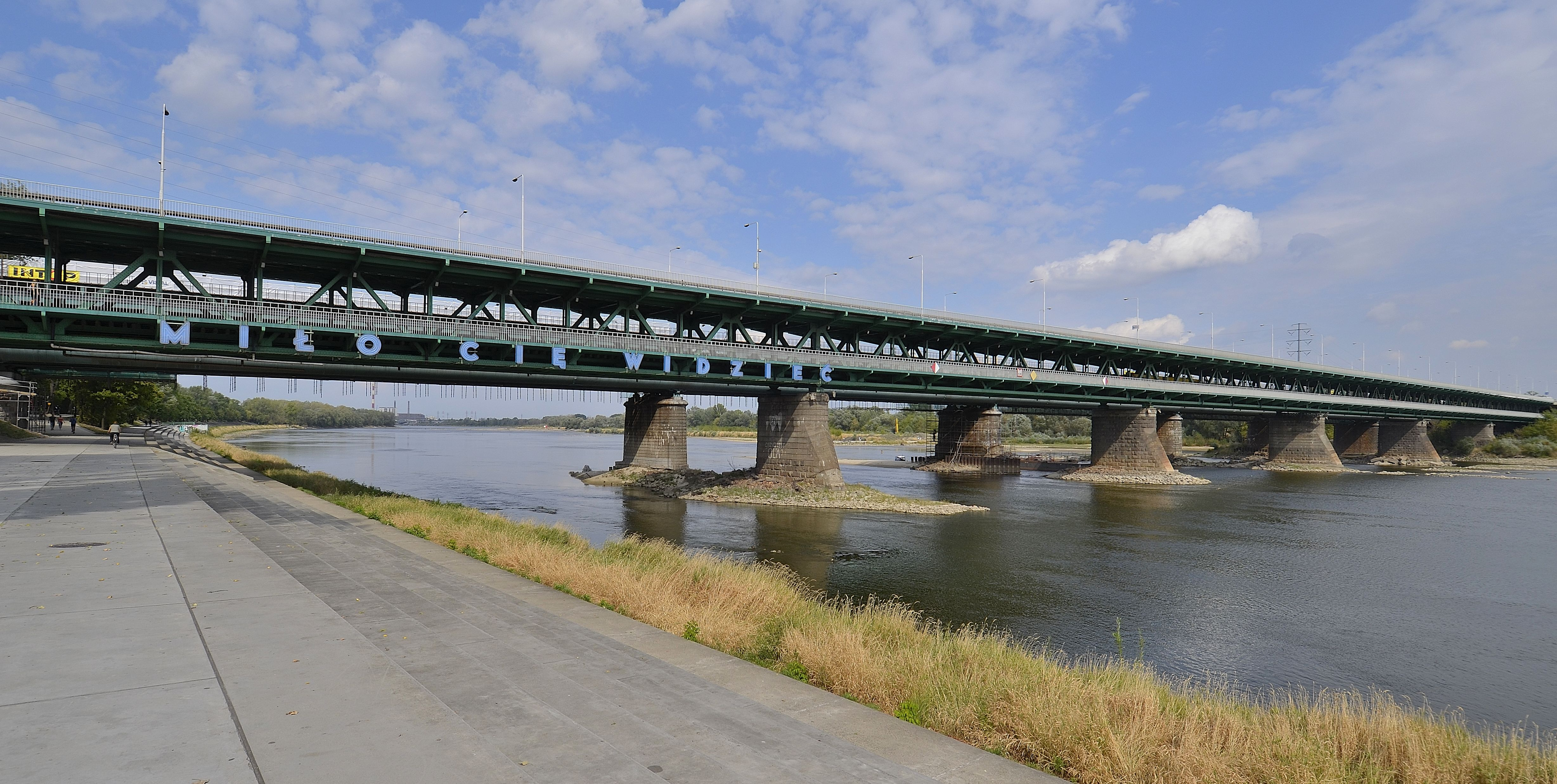 Gdański Bridge in Warsaw